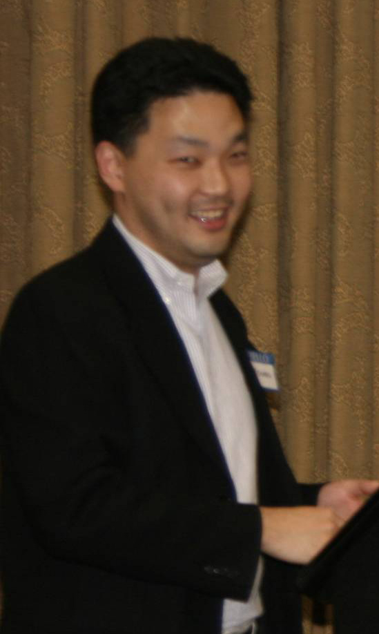 Richard Yoo